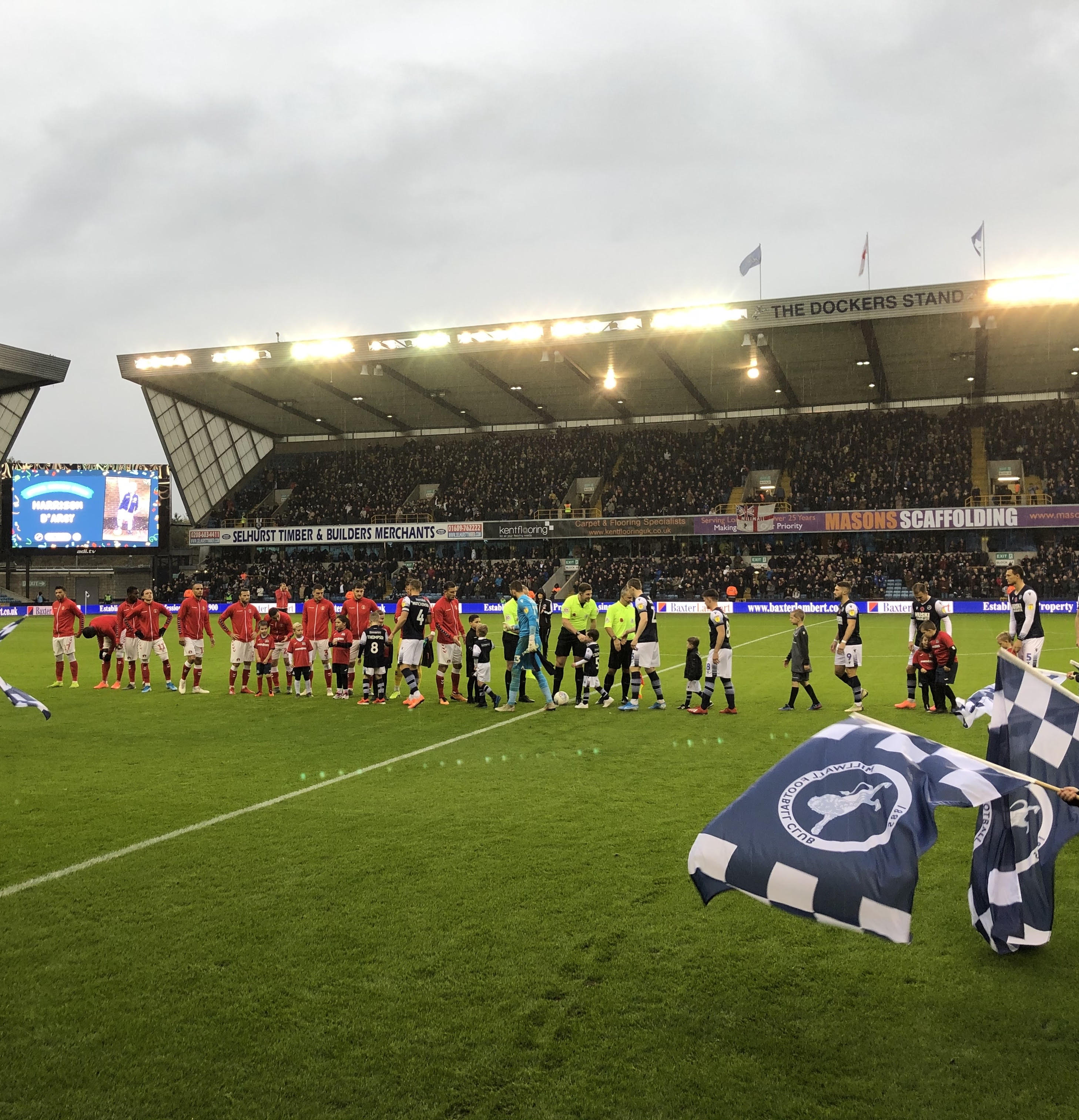 Millwall and Charlton players shake hands before their Football League Championship game at The Den on 9 November, 2019